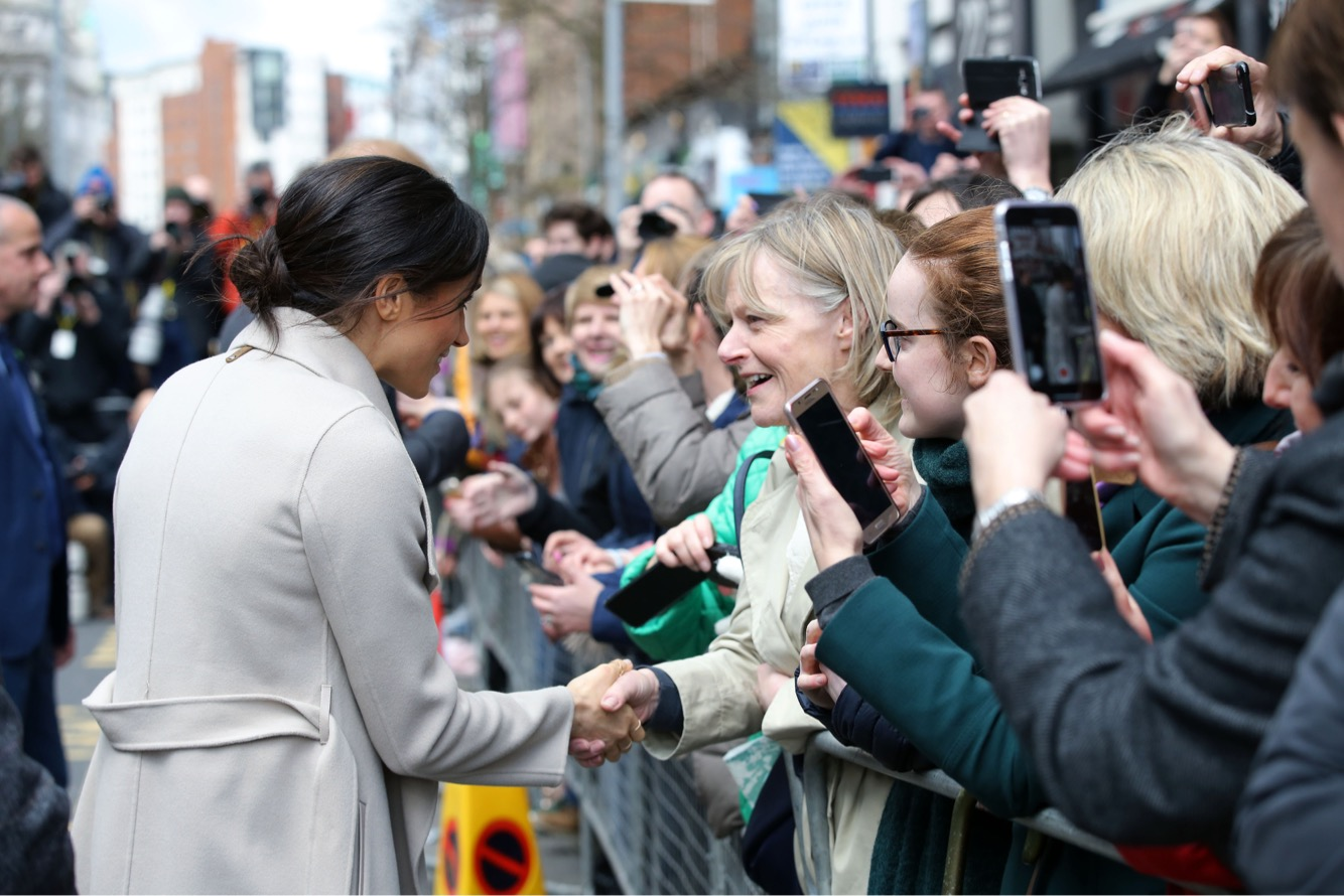 Prince Harry and Ms. Markle visit Belfast’s Crown Liquor Saloon